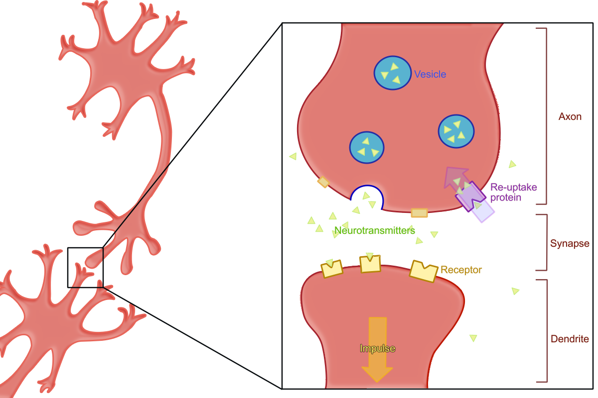 Neuron synapse during neurotransmitter re-uptake. Note that the process is slightly inefficient, as some neurotransmitters are lost in the medium between the neurons.